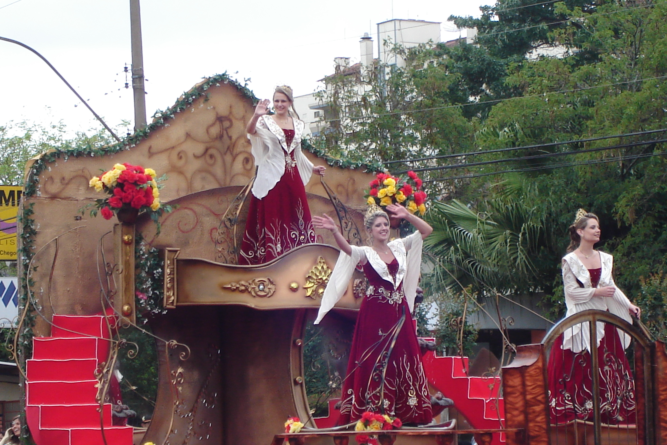 Queen, first and second princess at Oktoberfest parade in Santa Cruz do Sul, Brazil.